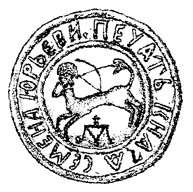 A drawing of a seal of Semen Jurewicz Holszanski. The seal comes from the early 16th centuru, the drawing from the end of 19th.